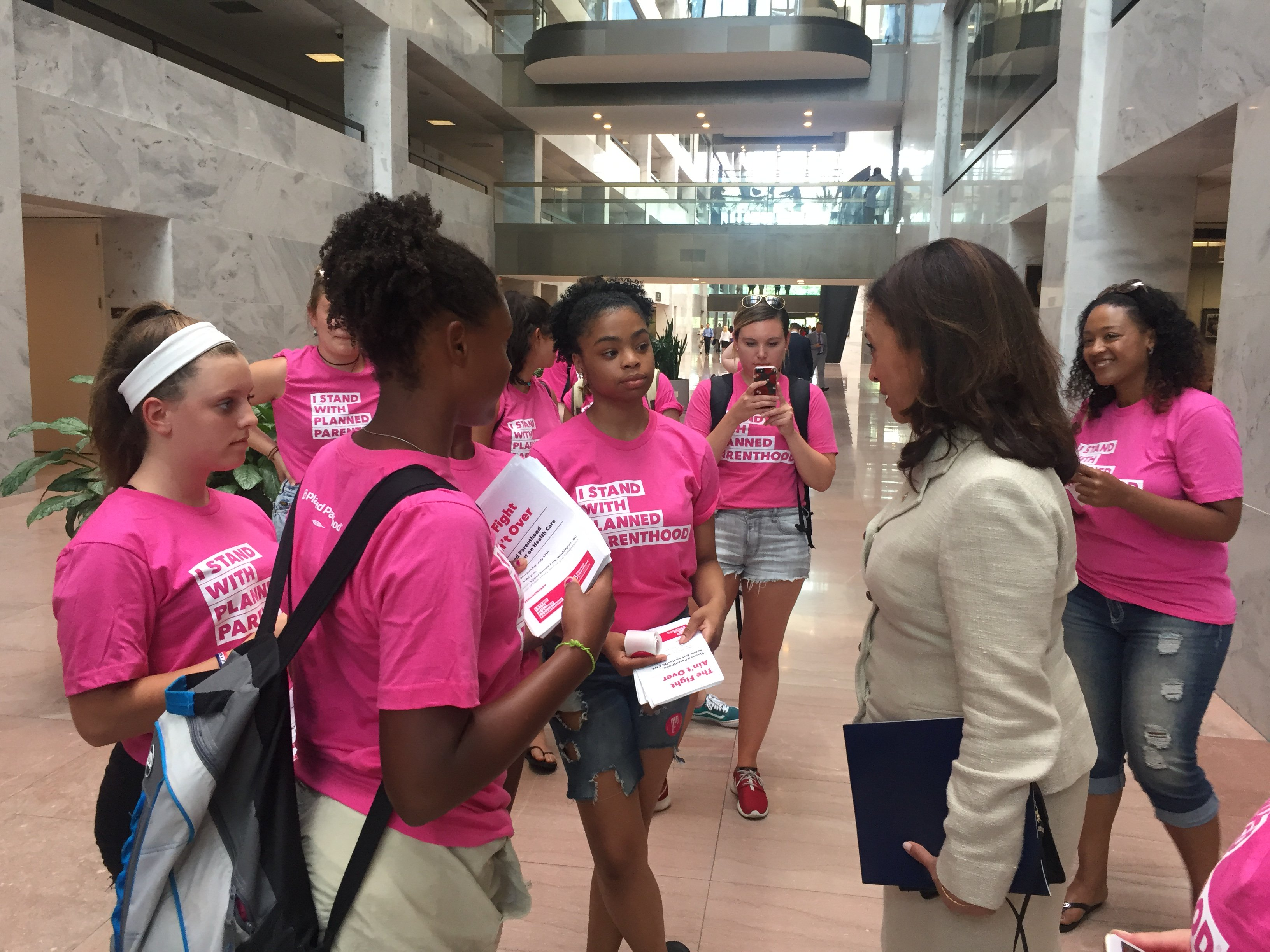 Bumped into a group of Planned Parenthood activists outside my office. Happy to see all that pink – keep up the fight!